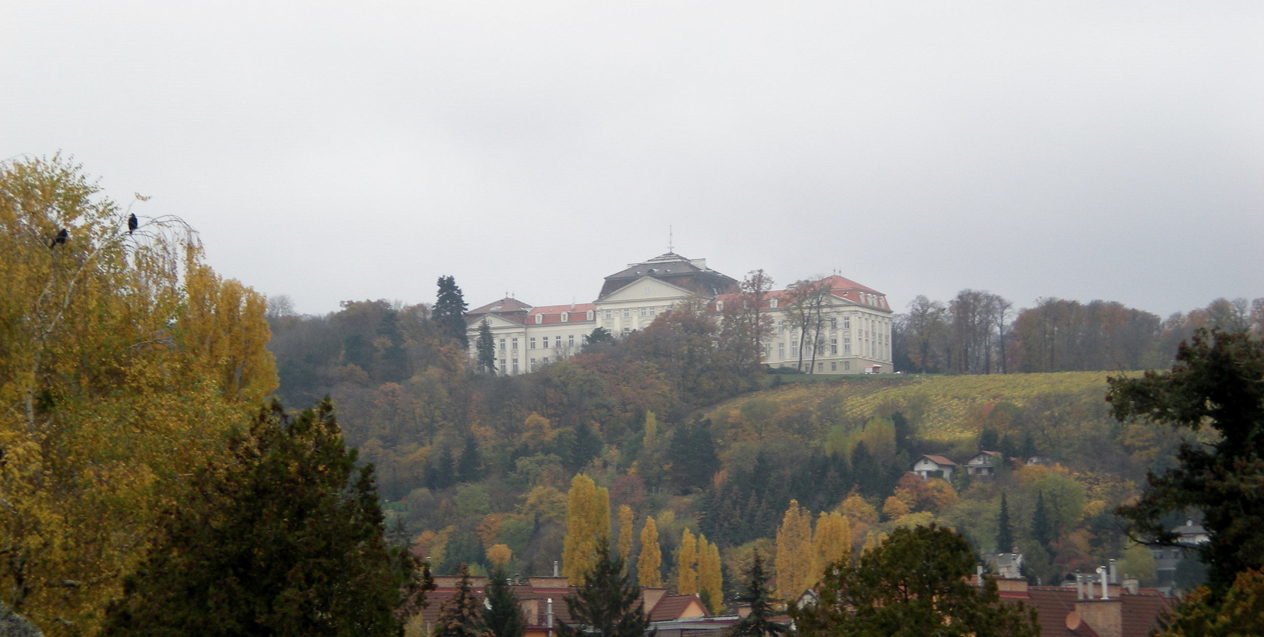 Schloss Wilhelminenberg (Wilhelminenberg Palace) in Vienna's 16th district (view from Ottakring cemetery)